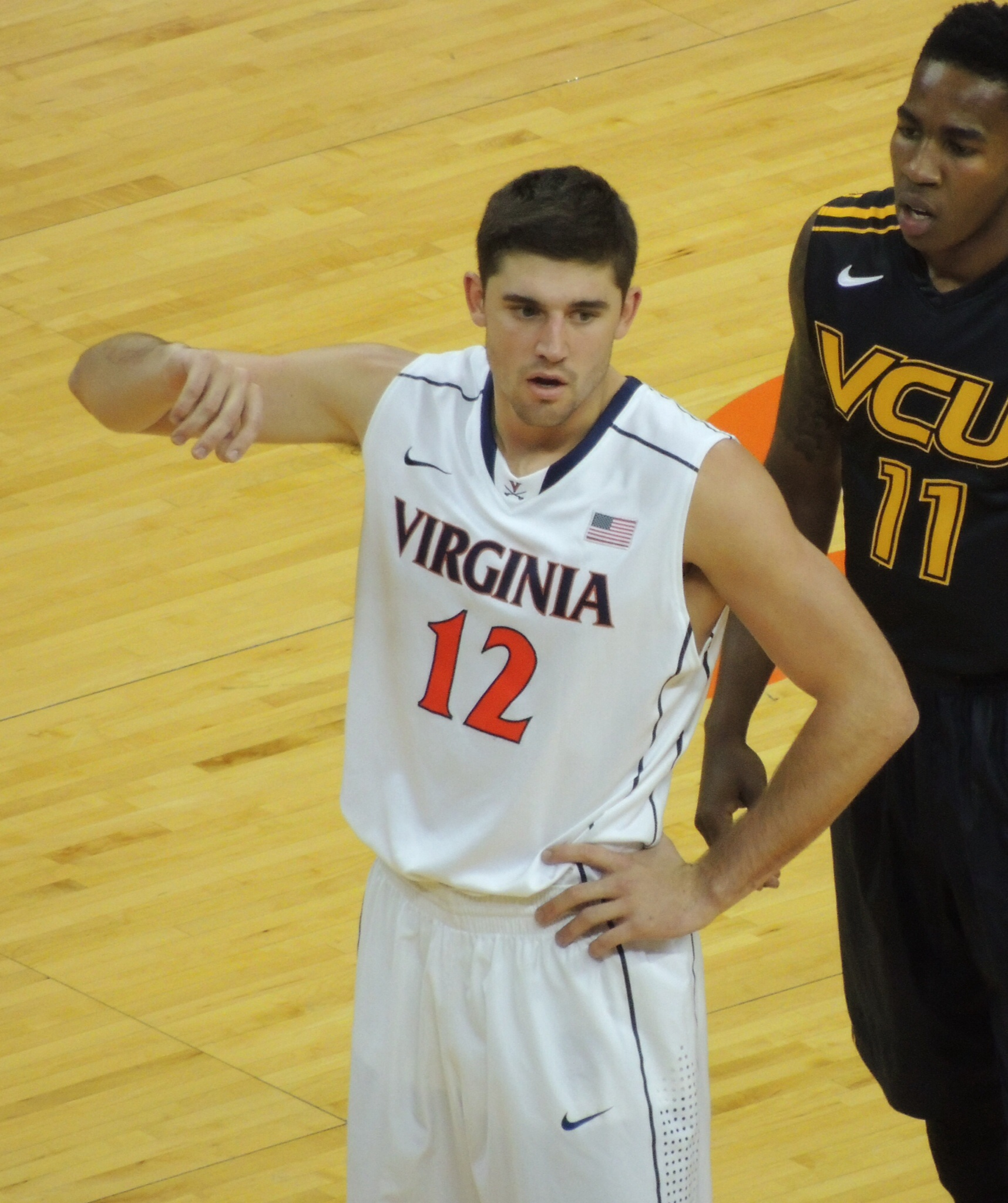 Joe Harris in a game against VCU on November 12, 2013